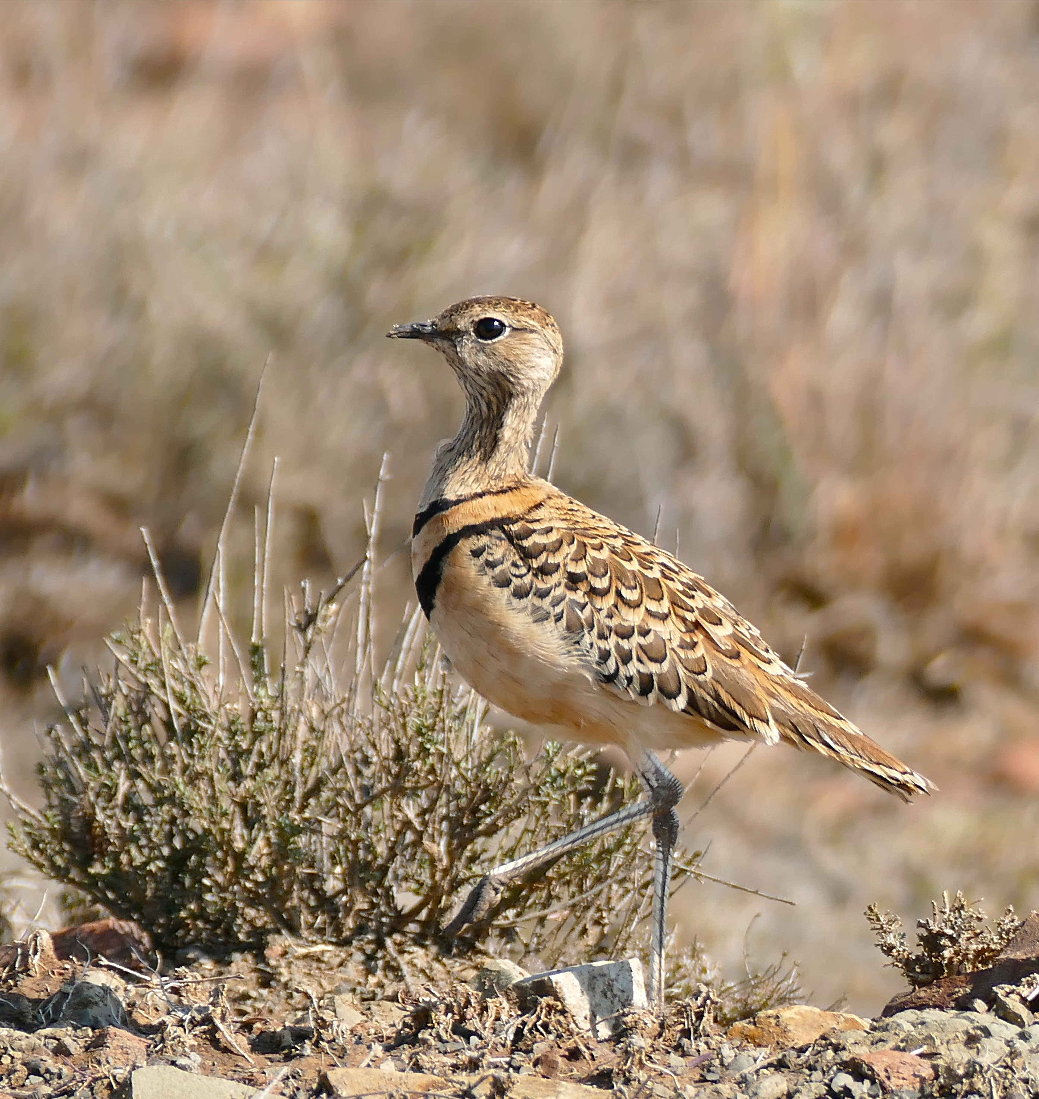 Rooiplat Loop, Mountain Zebra NP, Eastern Cape, SOUTH AFRICA